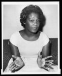 Brenda L. Travis, three-quarter length portrait, seated, facing front